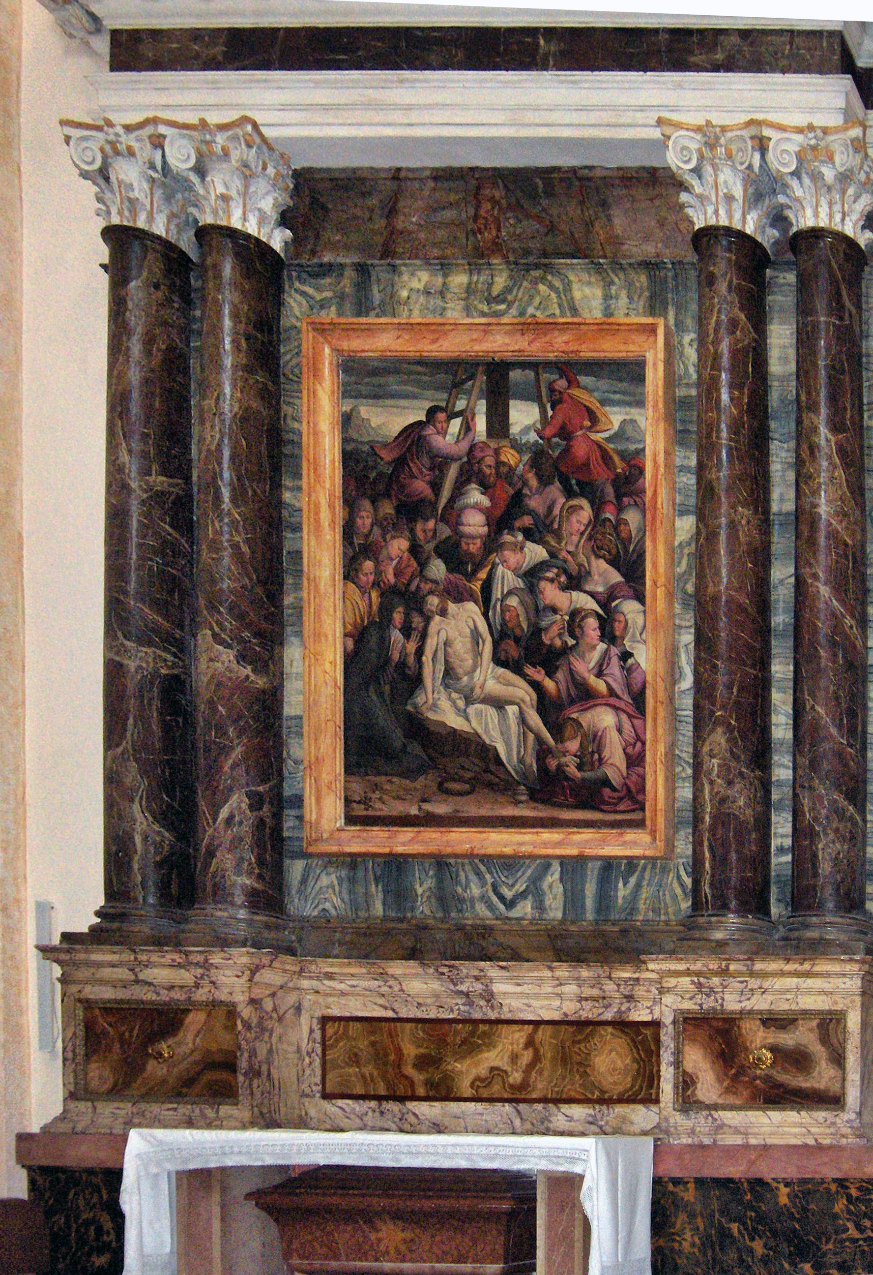 "Deposition" by Dono Doni (1562); Cathedral of San Rufino, Assisi, Italy